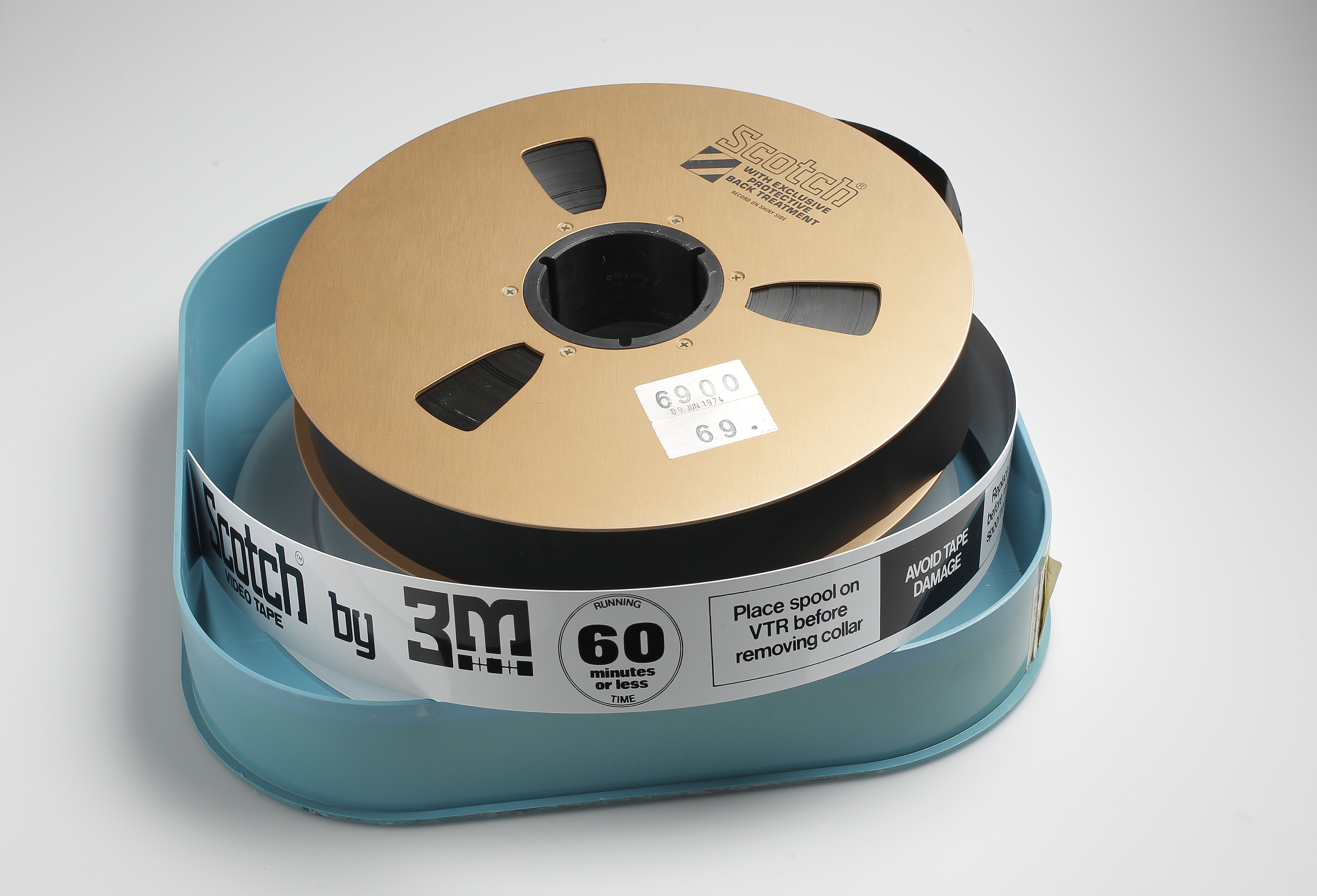 Danmarks Radios arkiv af DRs Kulturarvsprojekt / The archive of the Danish Broadcasting Corporation Photos must be credited "DRs Kulturarvsprojekt"